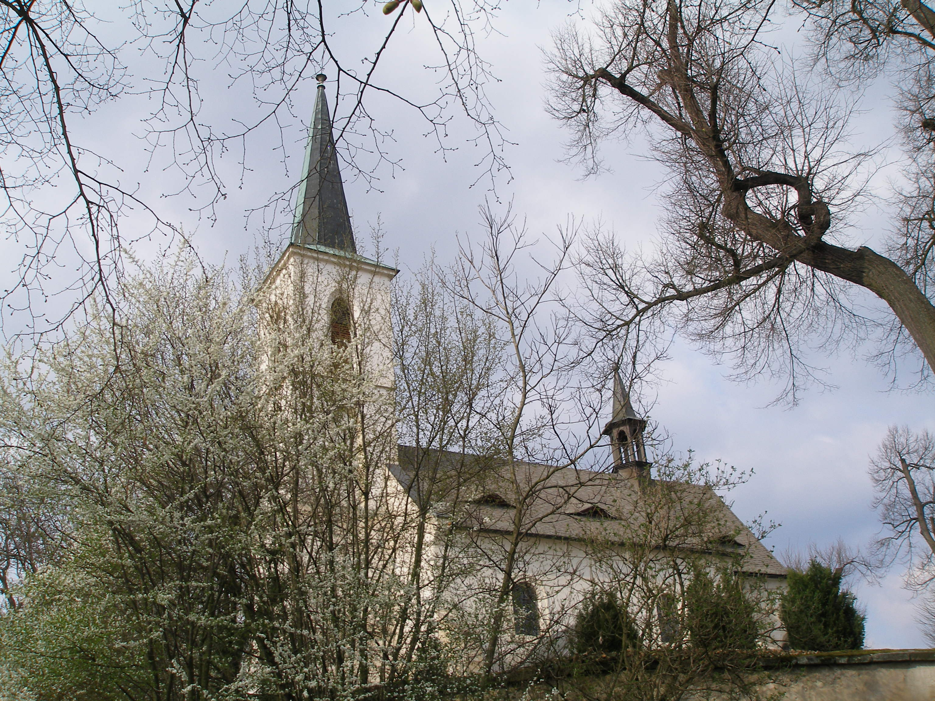 Church of the Assumption in Solec.